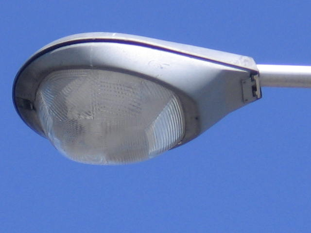 History of street lighting